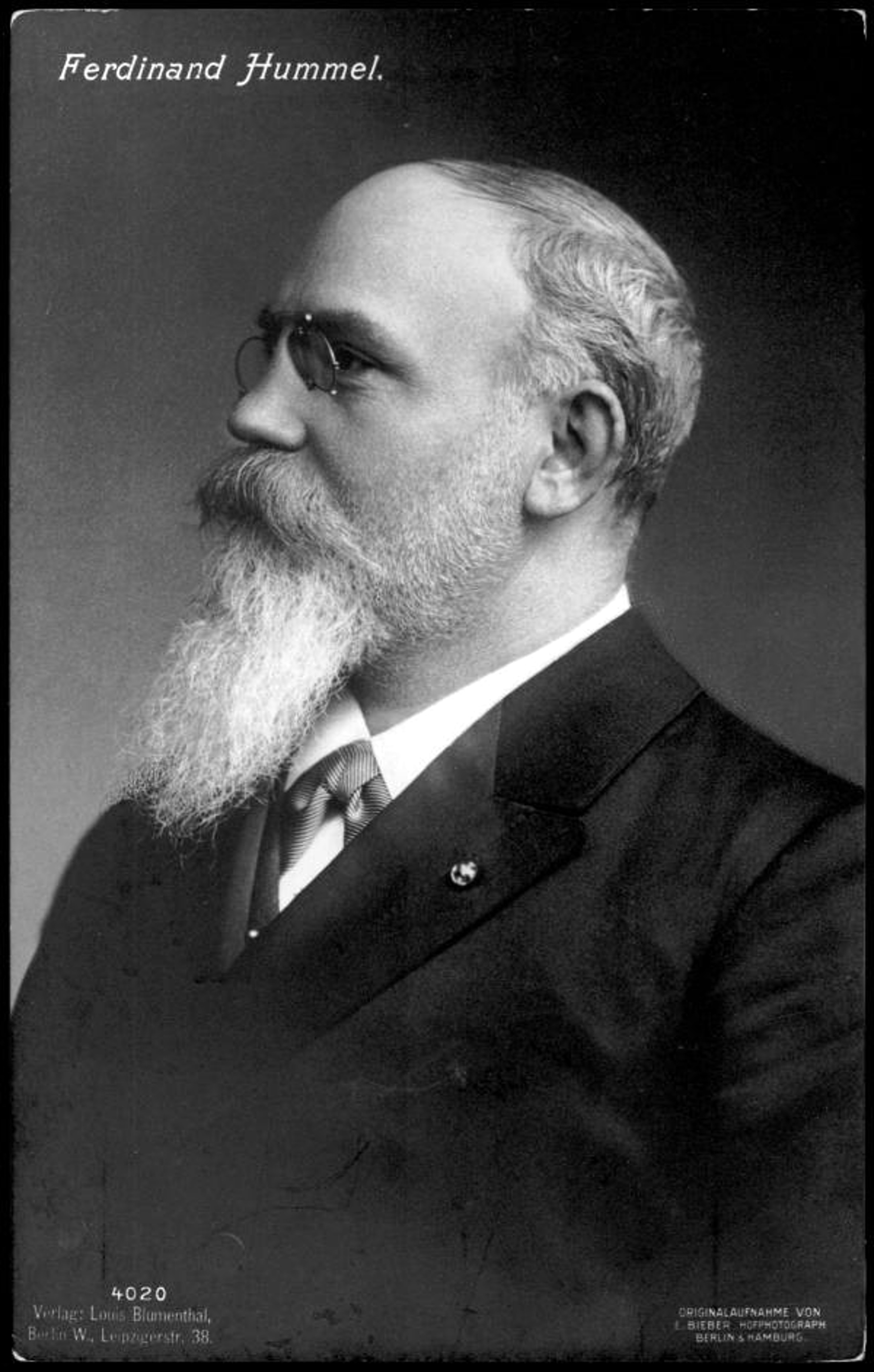 Depicted person: Ferdinand Hummel